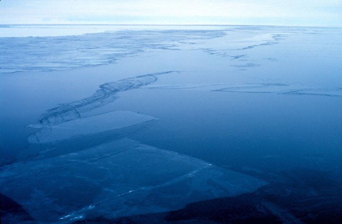 Sea Ice in the Ross Sea, Antarctica. Image ID Corp2576 from the NOAA Corps collection.